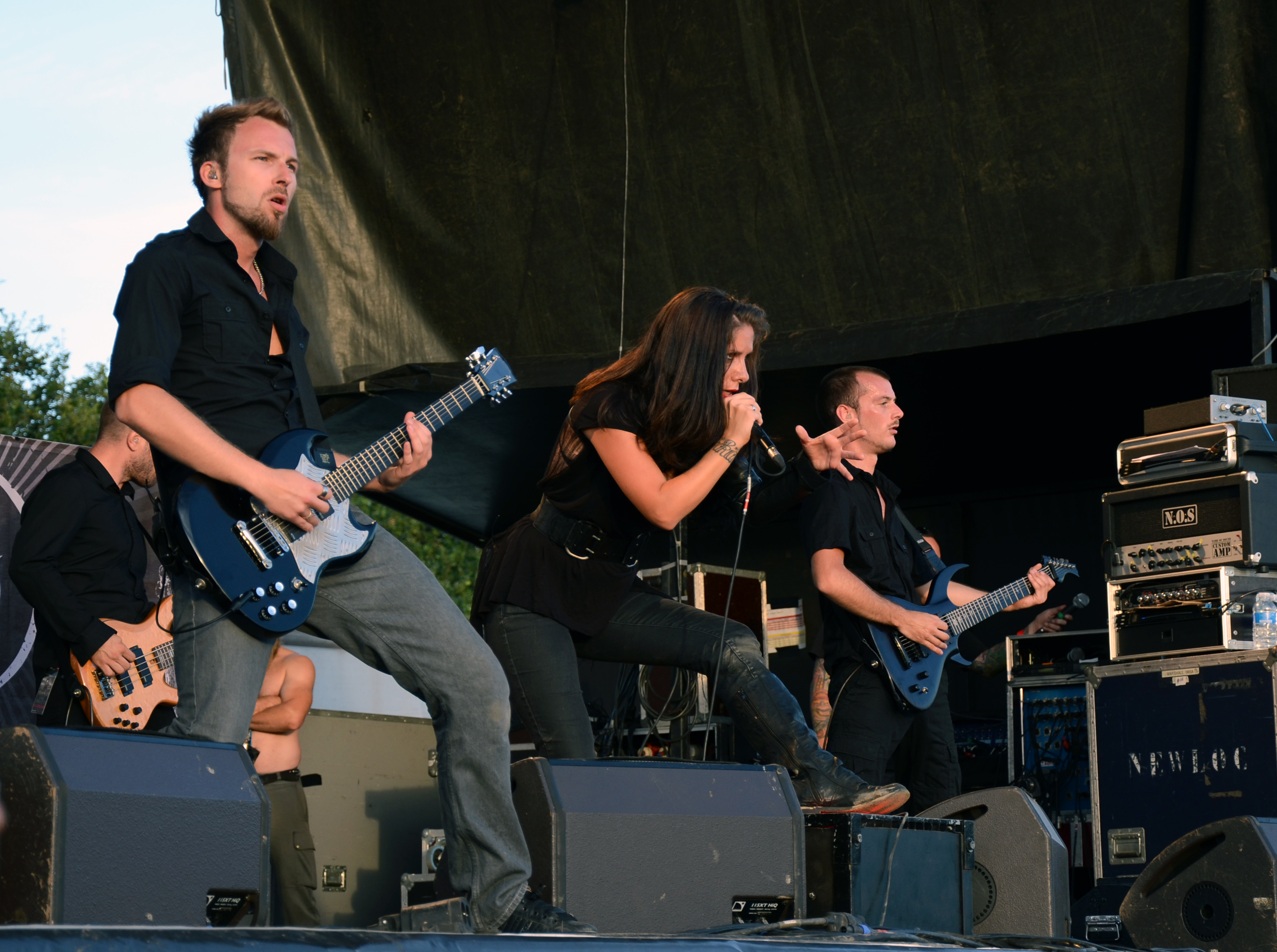 Eths performing at the Motocultor Festival, in Theix (Morbihan, France), on the 17th of August 2012.